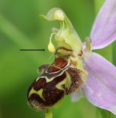 Description: Ophrys apifera, flower Picture taken by BerndH Date: 12. June 2004